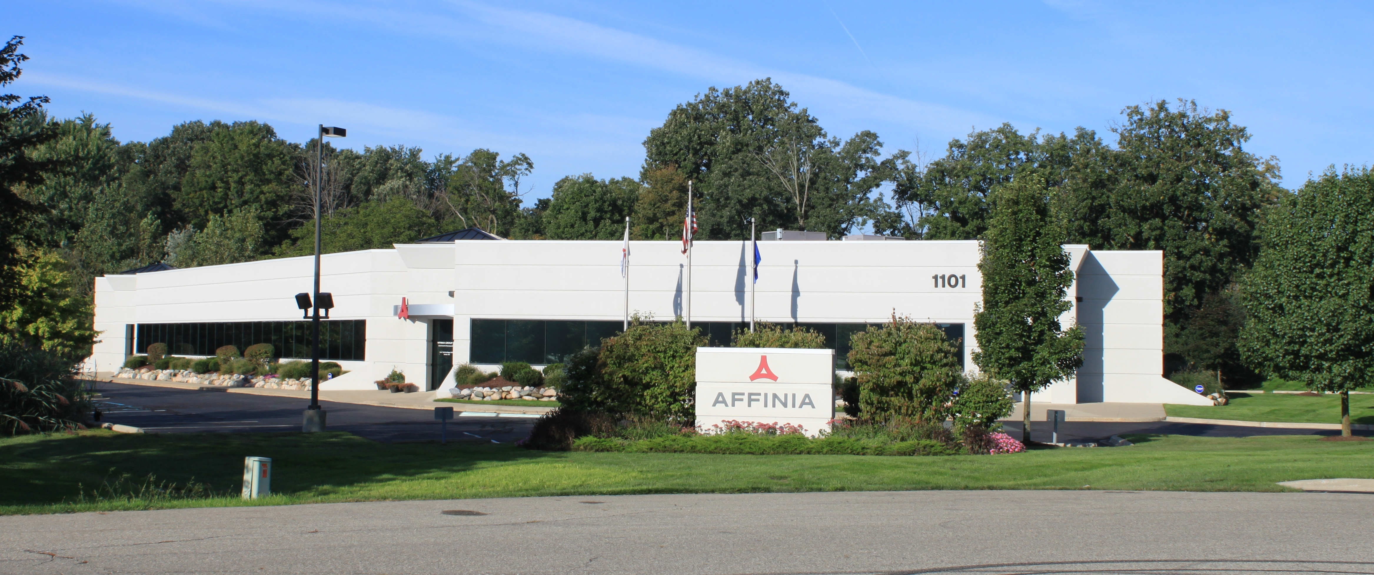 Affinia Group corporate offices, 1101 Technology Drive, Ann Arbor, Michigan